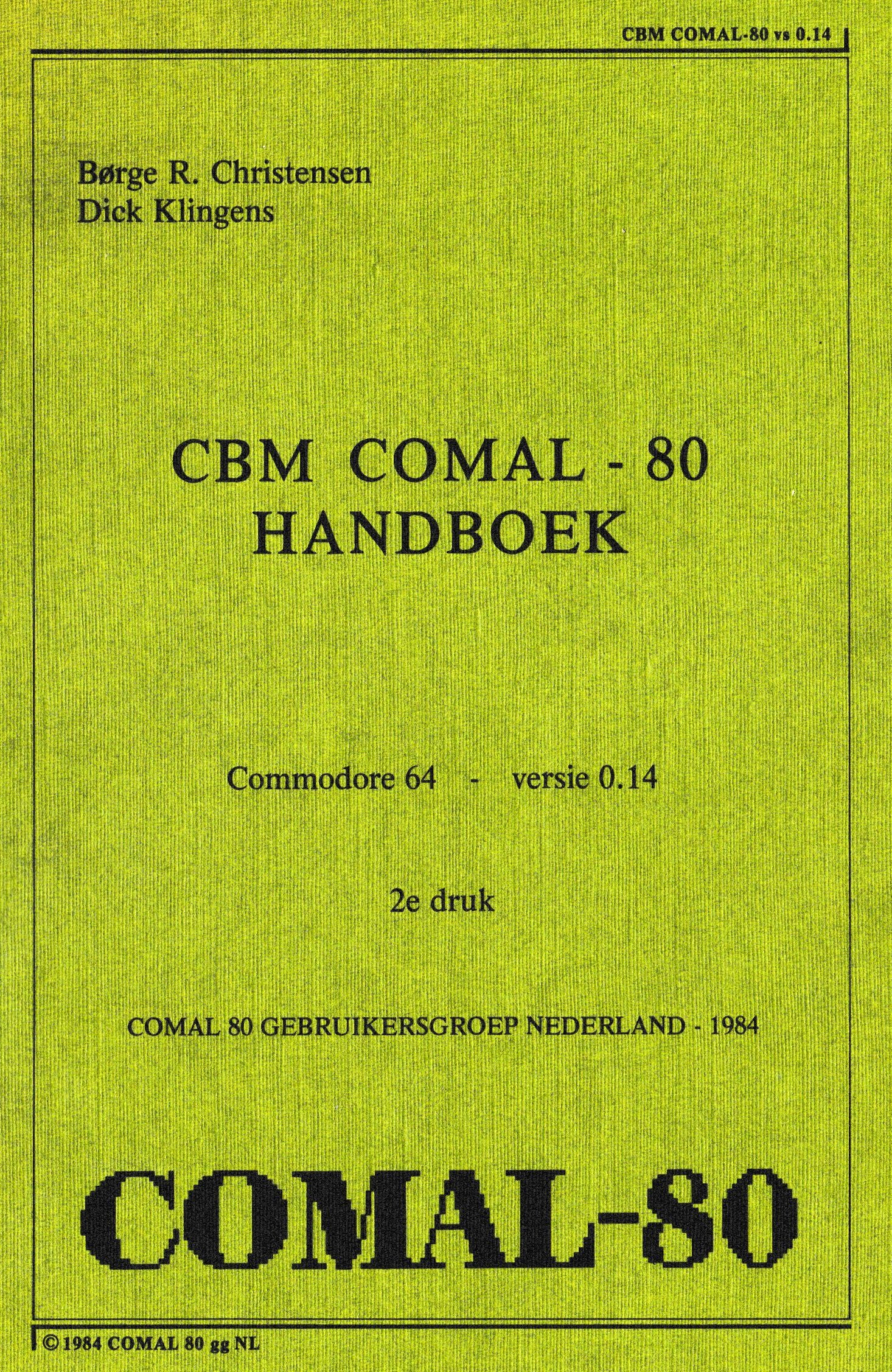 Handbook COMAL-80 for Commodore 64